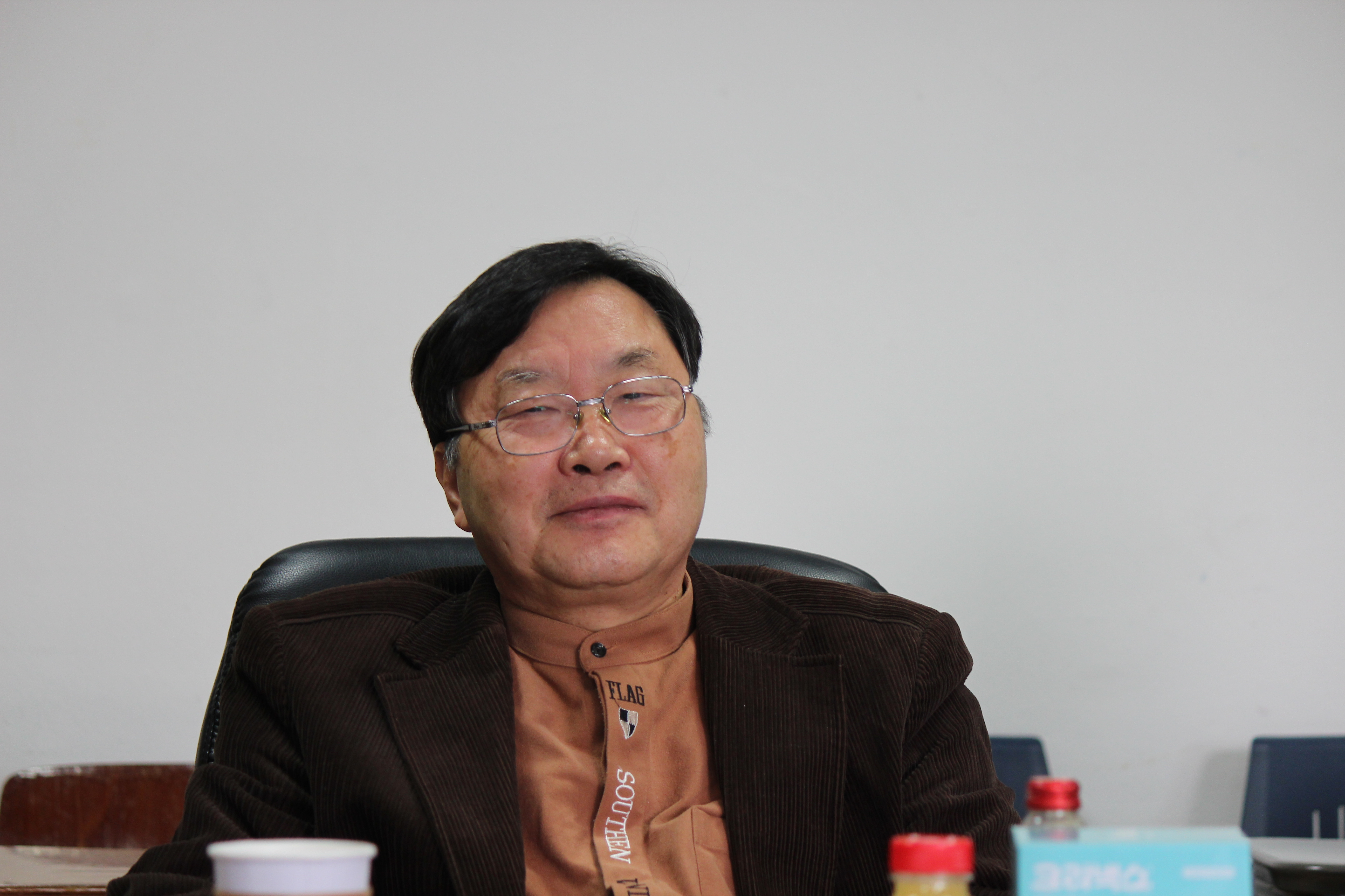 Kye-Sam Cho, Professor of Hansei University and Dictor of International Multicultural Research